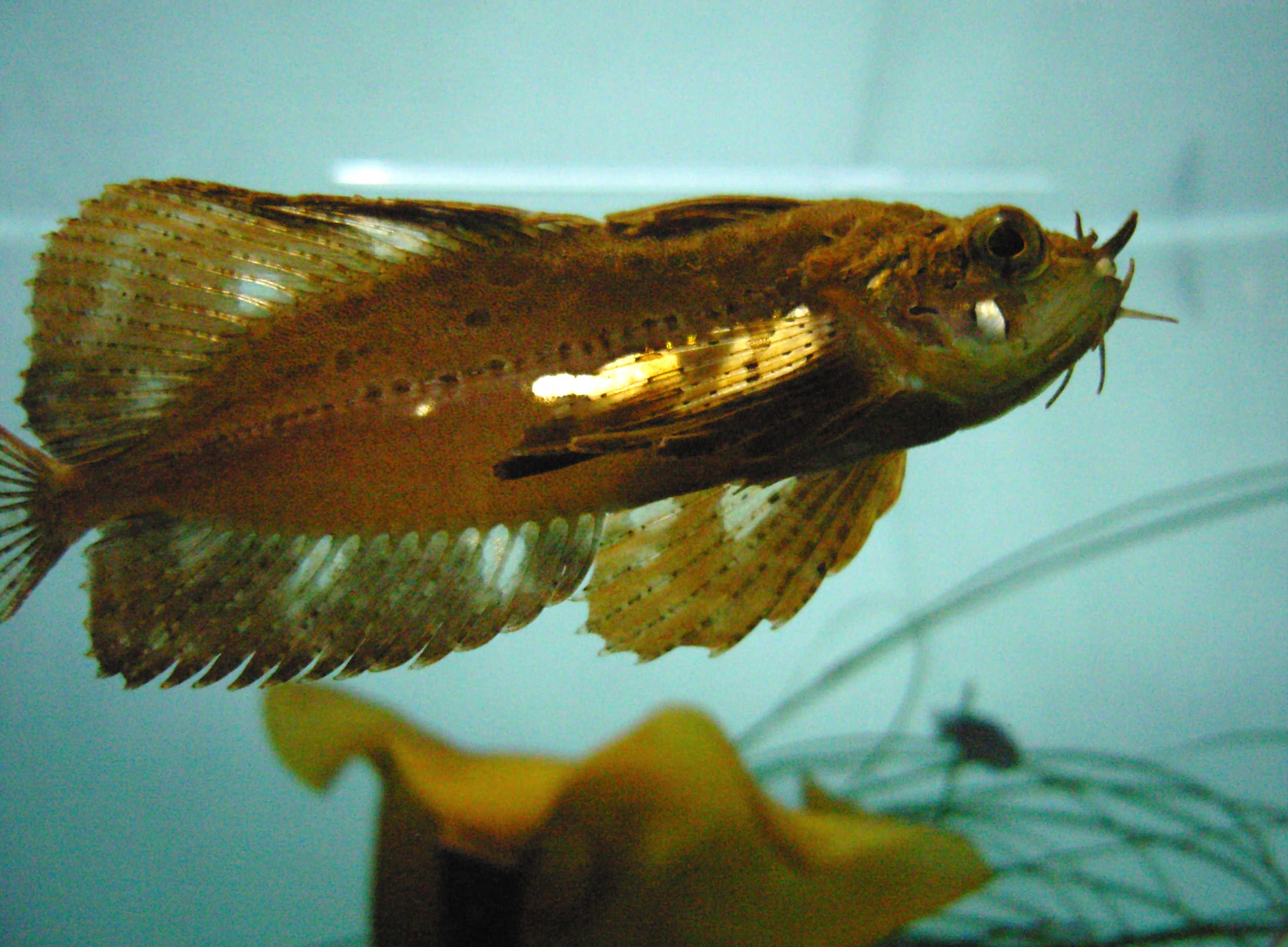 Photo of Blepsias cirrhosus (silverspotted sculpin) at Monterey Bay Aquarium, California.